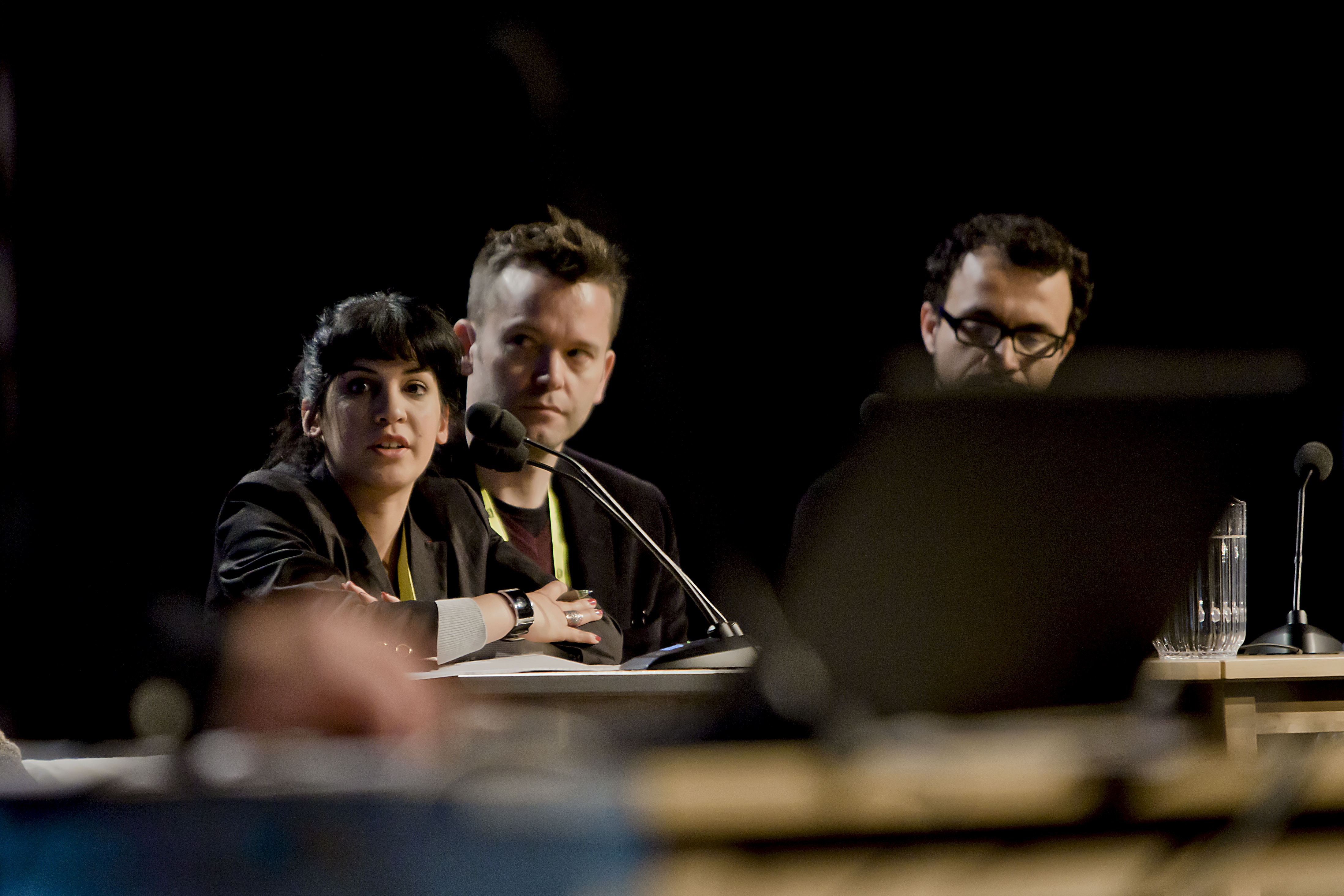 Foto: Jarle H. Moe